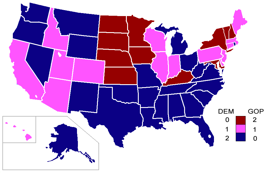 Map showing Senate composition by party during the 86th U.S. Congress